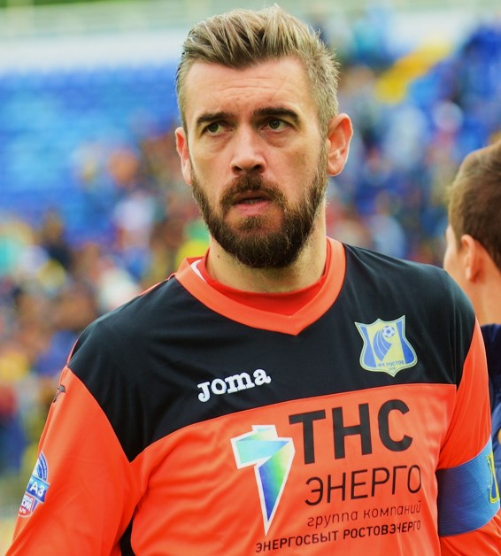 Stipe Pletikosa